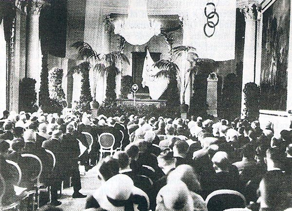 Opening ceremony of the Olympic Congress 1930 in Berlin photography, adapted reproduction, no restrictions on use Copyright: free of charges